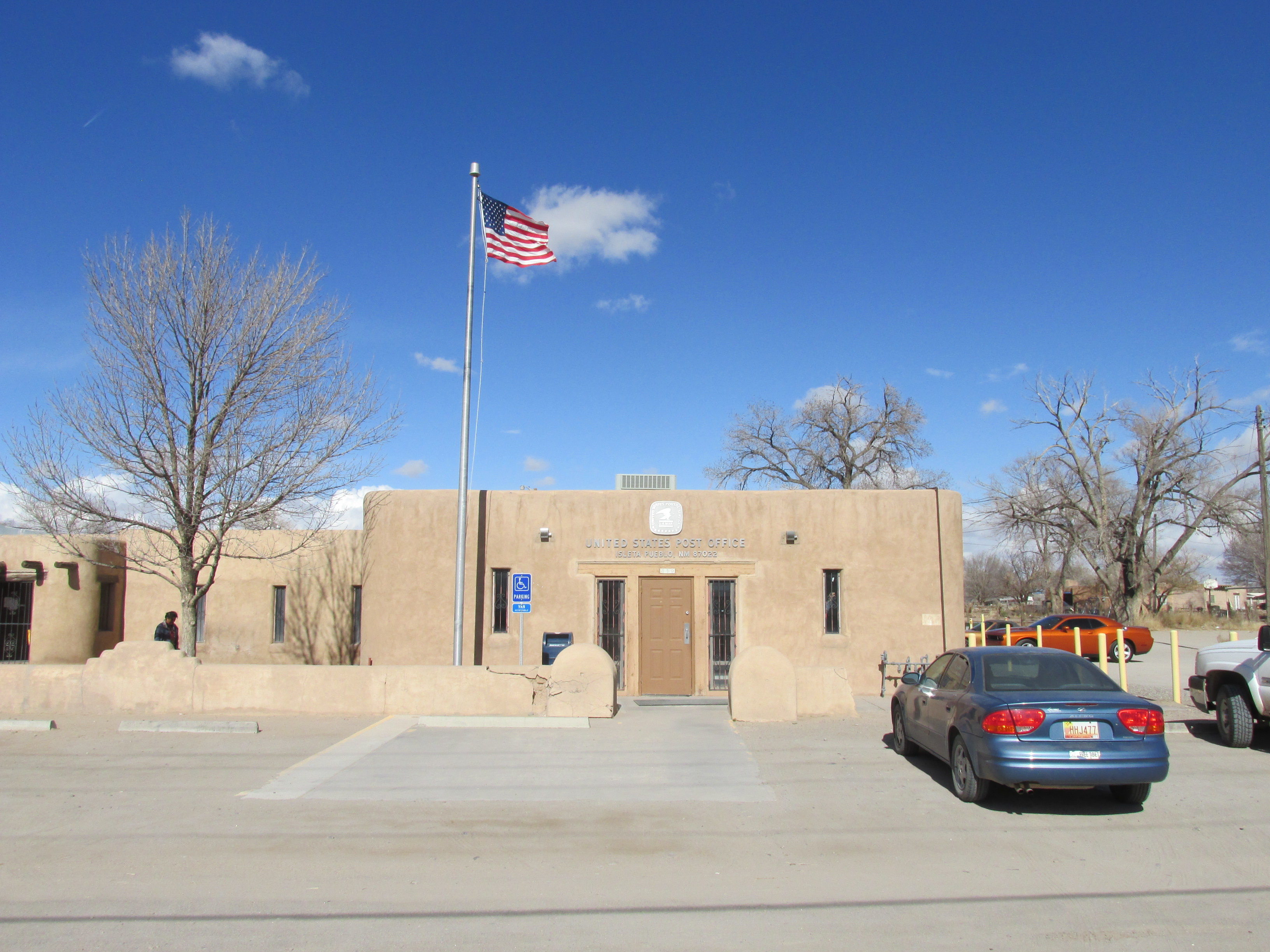 Post Office, Isleta Pueblo New Mexico